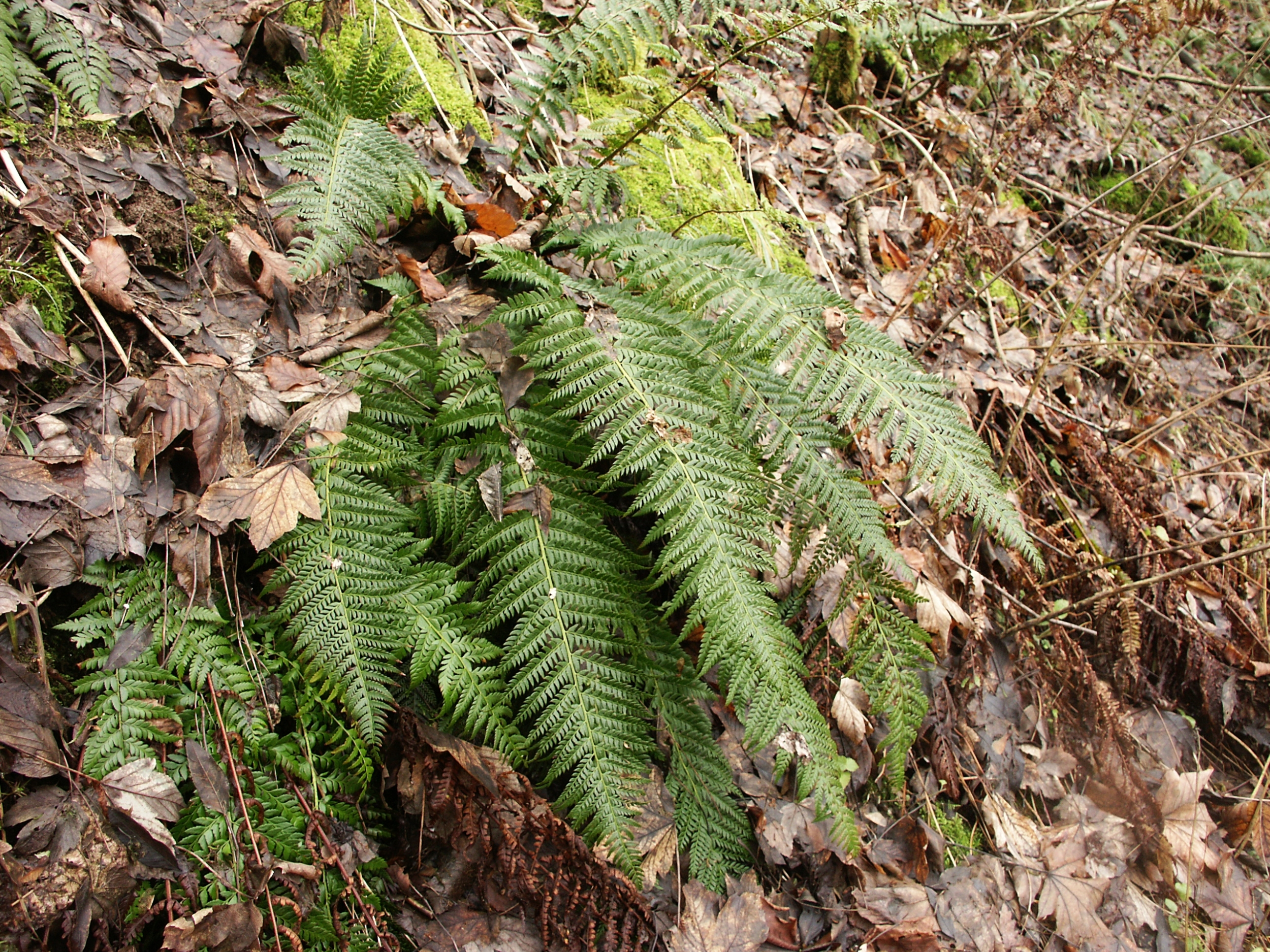 Polystichum aculeatum, Hohenlohe, Germany